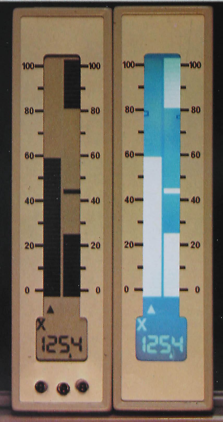 Liquid Crystal Display: left reflective mode, right transmissive mode with a cold cathode fluorescent backlight, proposed for vertically-mounted measurement panels.